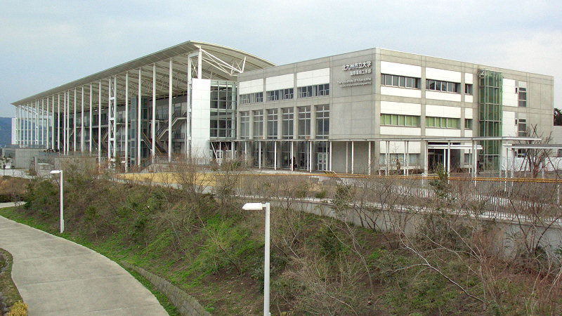 The Main Bldg. of Hibikino Campus, the University of Kitakyushu